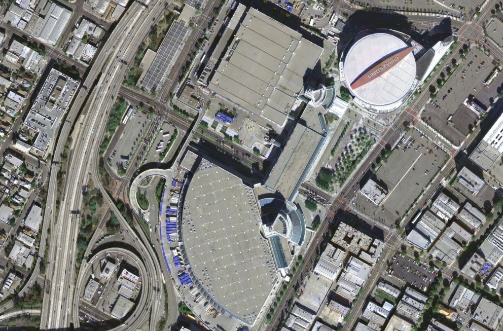 Los Angeles Convention Center (NASA World Wind 1.3.5)